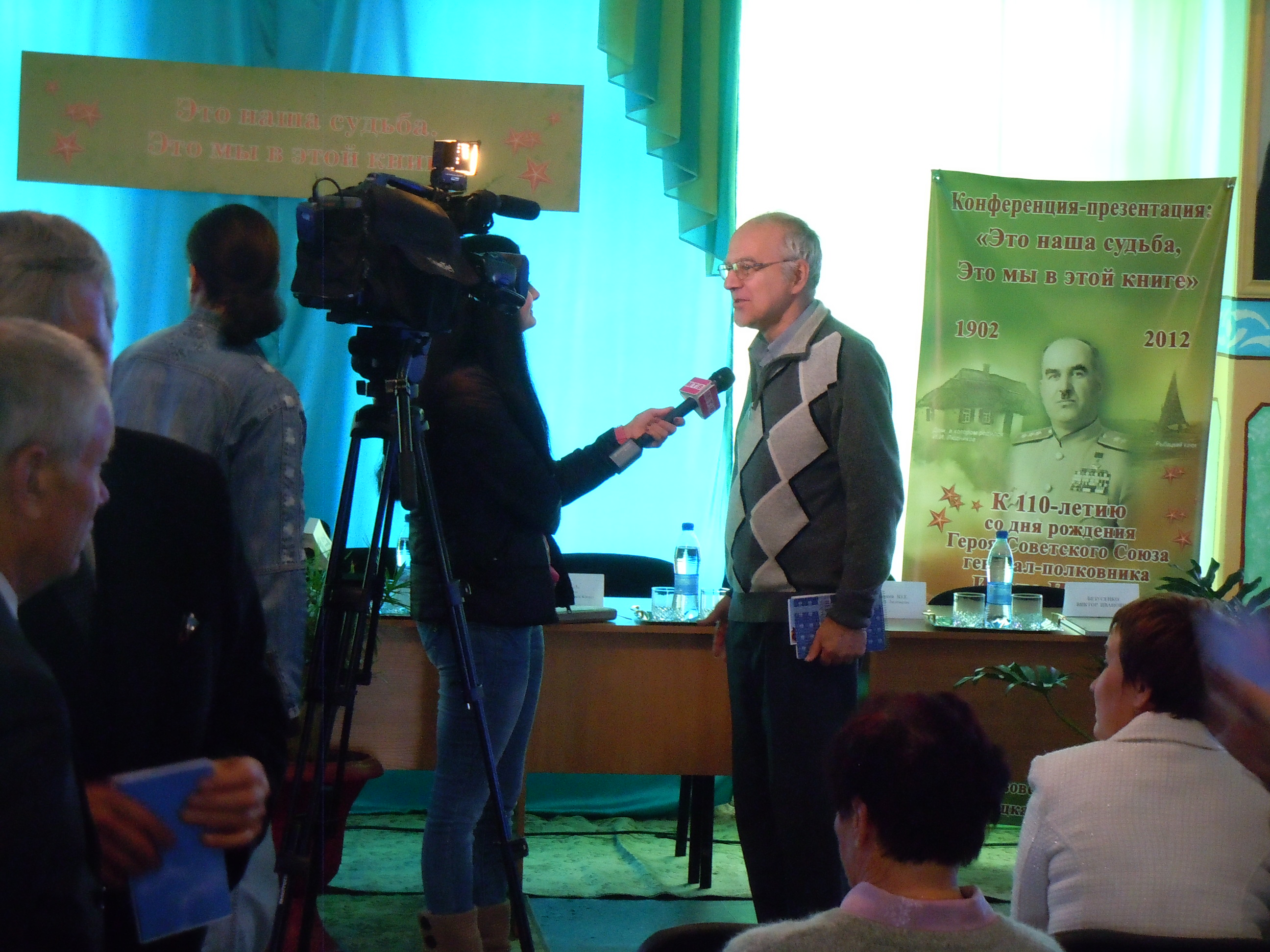 Сын И.И.Людникова Евгений Иванович рассказывает об отце